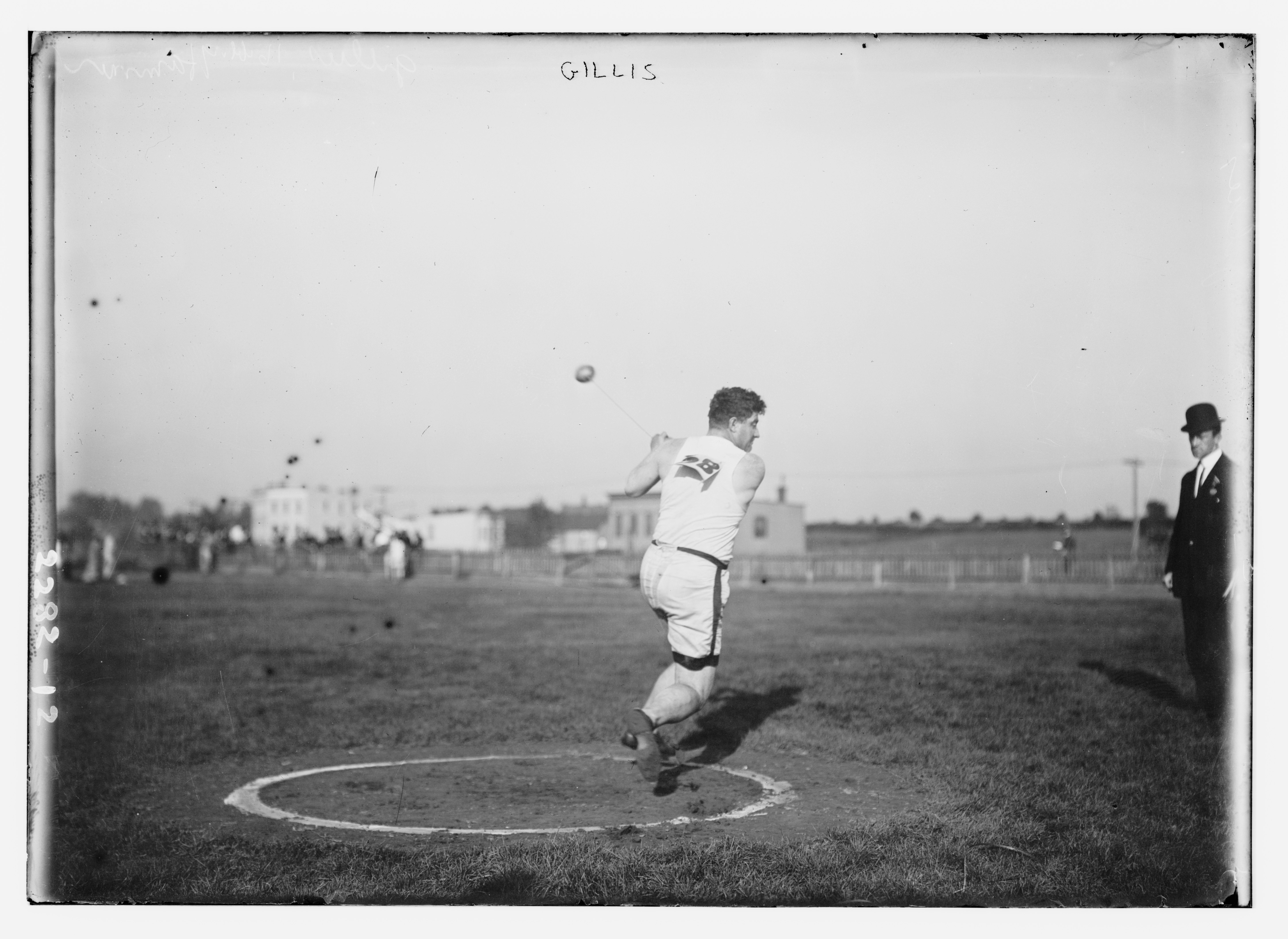 Photo shows Duncan Gillis (1883-1965), a Canadian athlete who competed in the Hammer throw in the 1912 Summer Olympics in Stockholm Sweden.